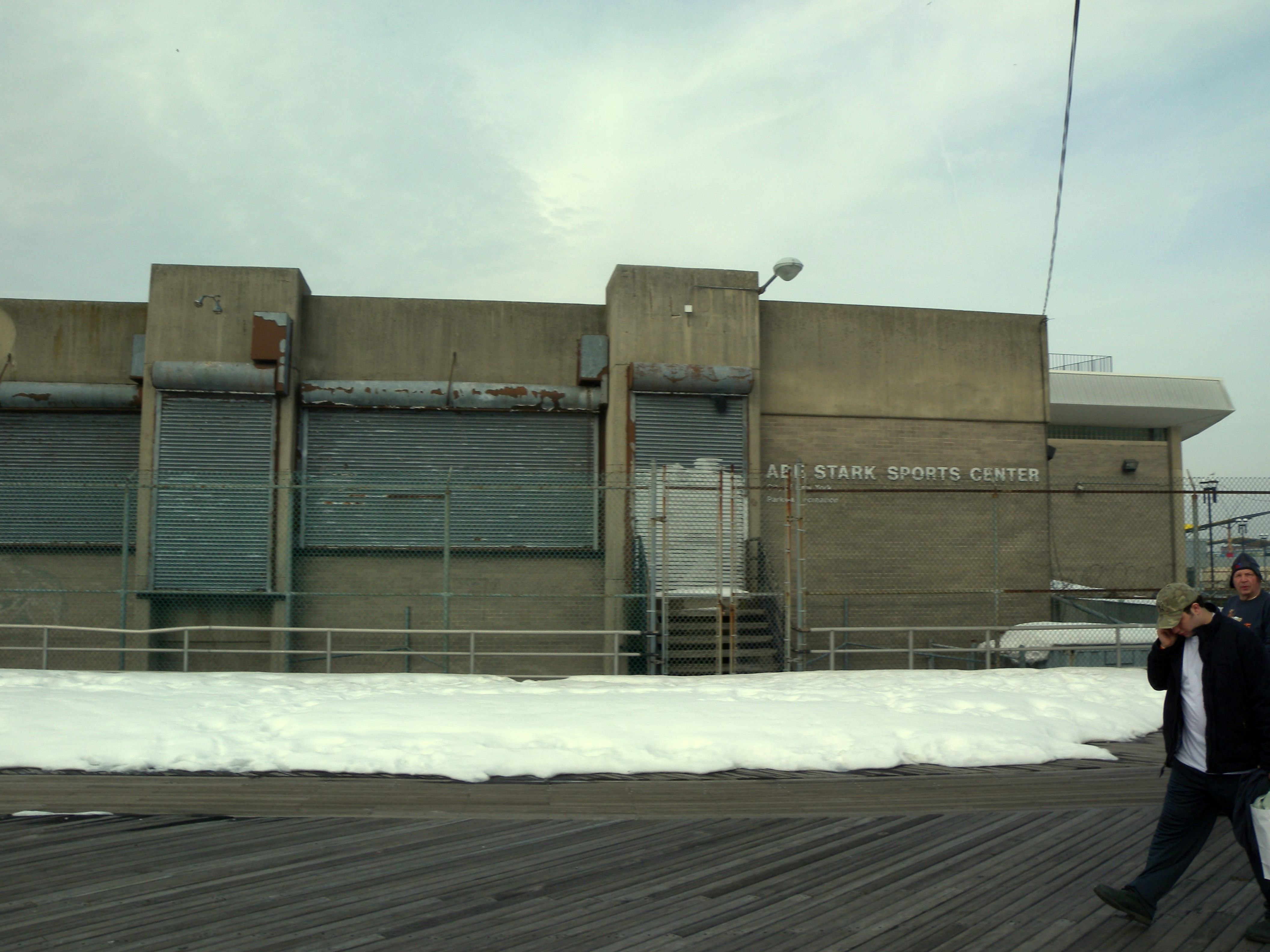 Looking north across Boardwalk at skating rink building on a cloudy New Years Day.